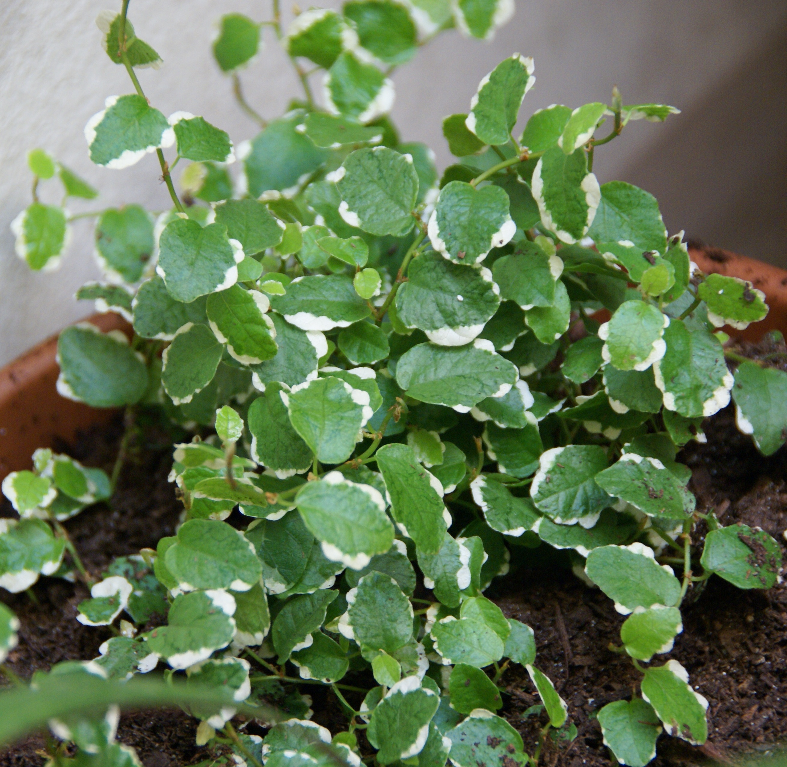 Ficus pumilla